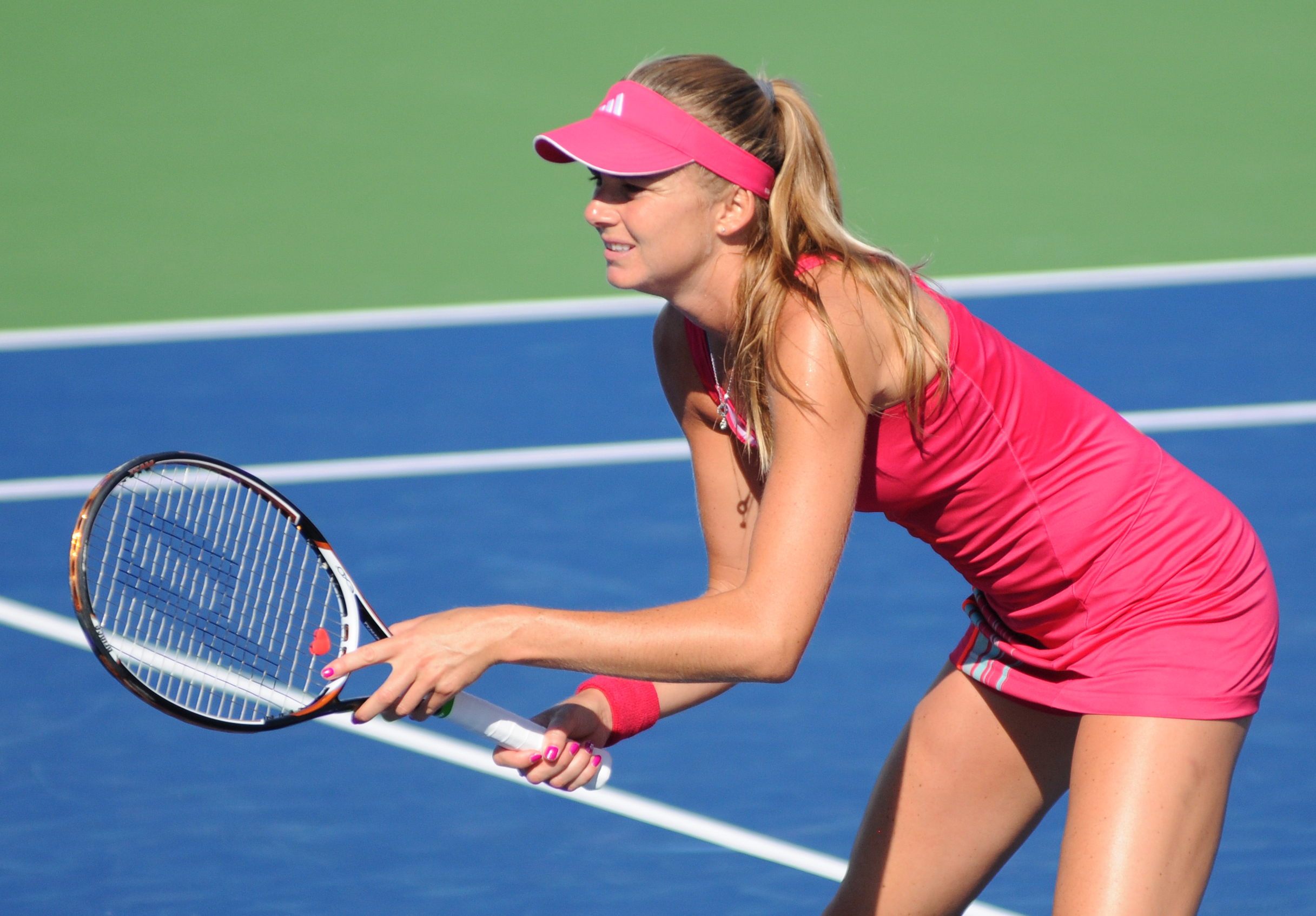 Mercury Insurance Open 2012